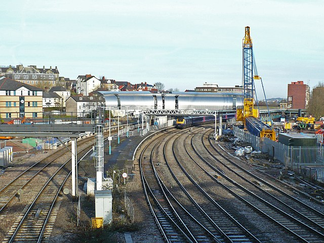 A new gateway for Wales [9] Overhead walkway which will connect a north station building to the left and a south station building to the right and give access to central platforms. Viewed from Bridge Street.